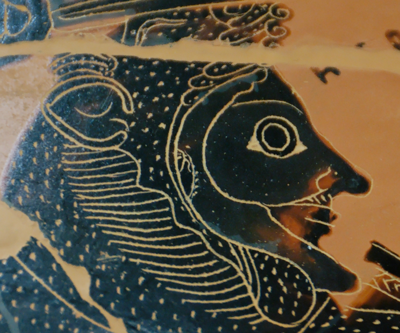 Detail of Herakles' head. Side A from an Attic black-figure amphora, ca. 550–540 BC.